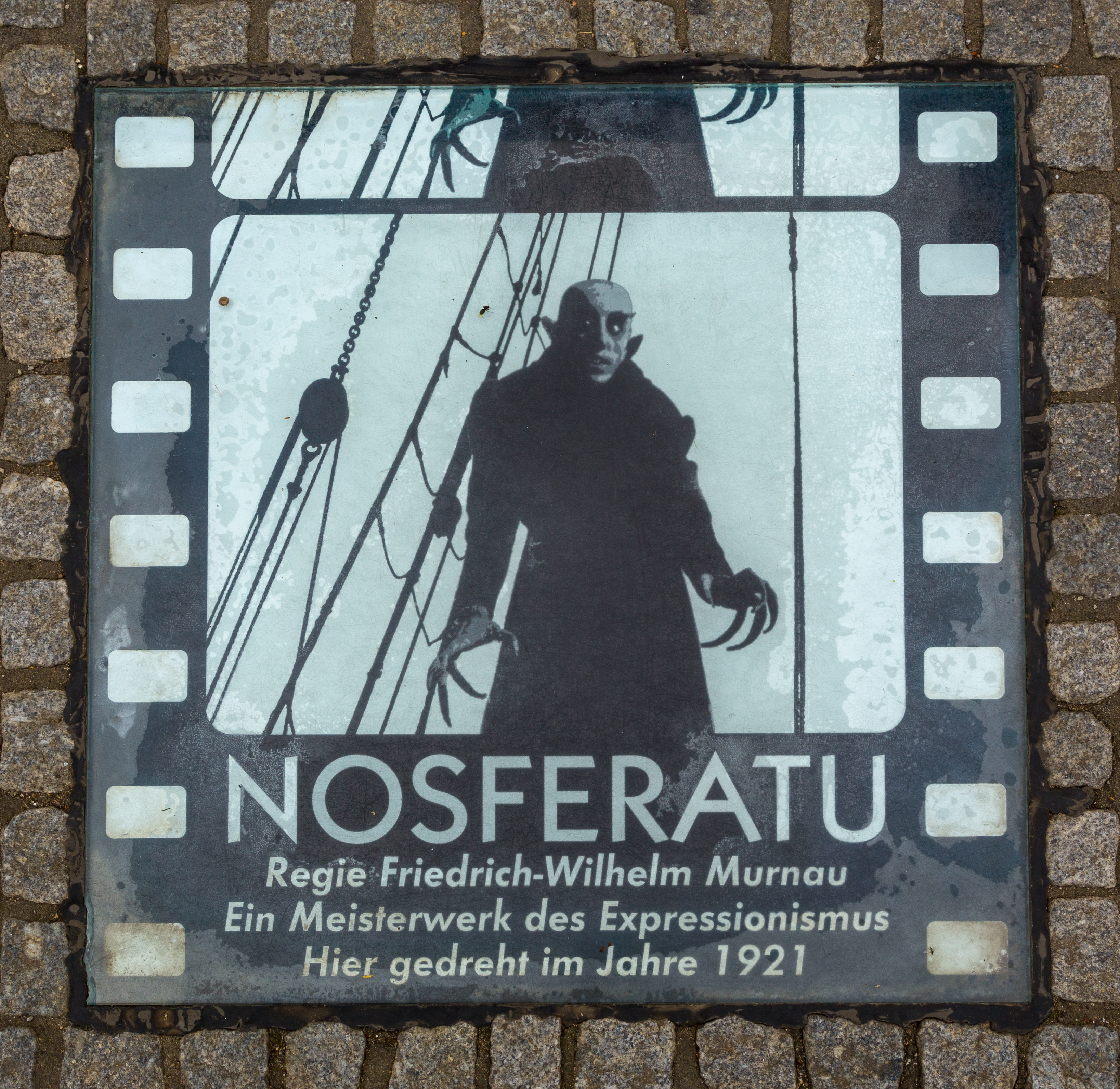 Commemorative plaque for the silent motion picture classic Nosferatu (1922) at the market square of Wismar, Landkreis Nordwestmecklenburg, Mecklenburg-Vorpommern, Germany. Parts of the film were shot in Wismar.